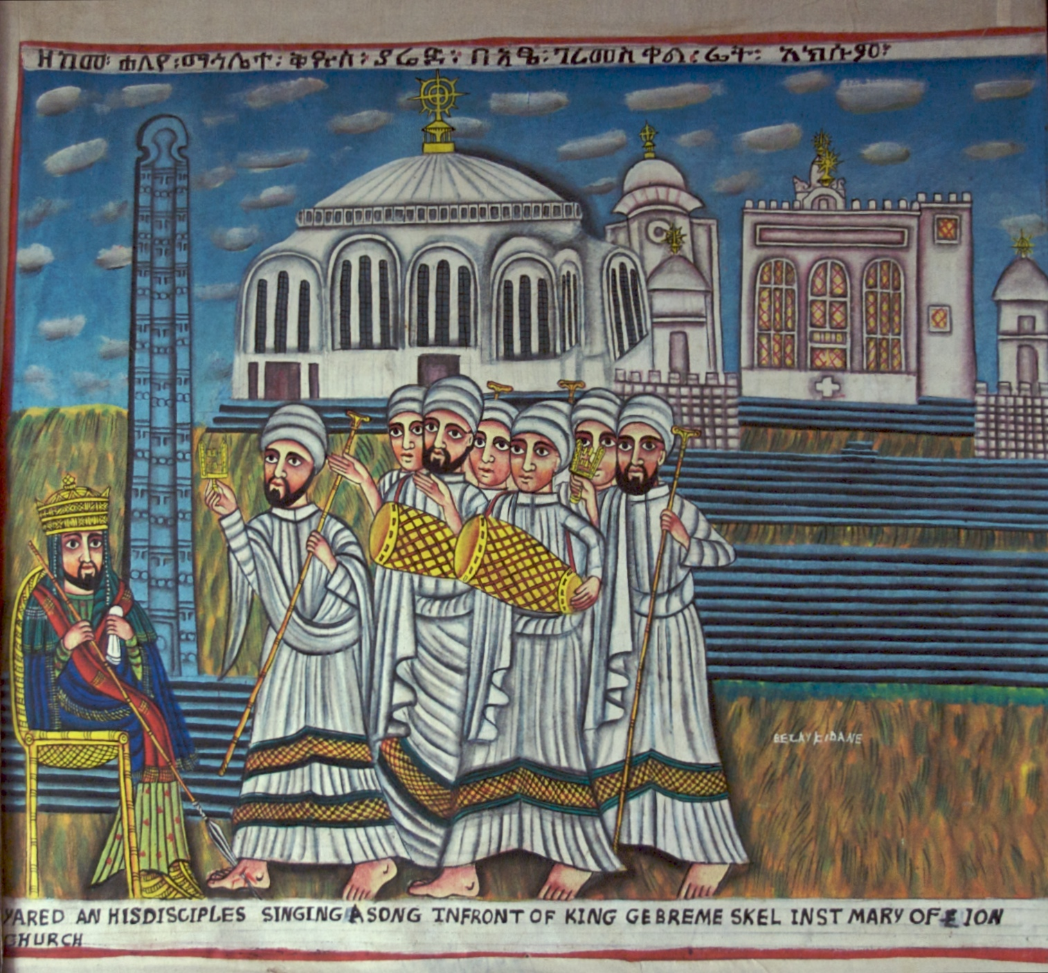 This is one of the modern Ethiopian paintings depicting scenes from local history that decorate the walls of the Remhai Hotel, where we stayed while in Axum. I found an interesting and informative explanation of this scene on the Web site "Genygeny’s Weblog," at According to that site, the ruler of "Ethiopia during this time was Gebre Meskel (525-539 A.D) the son of the renowned Emperor Kaleb." "The fact that during his reign Ethiopia produced her greatest musician and poet, Saint Yared, who as the creator of Zema (music) and poetry, surpassed all, pleased the Emperor so much that he was content to conduct the matters of state and leave to Yared the affairs of the Church." "Together they instituted the celebration of Hosana (Palm Sunday) in the city of Aksum. This custom which they established is still practiced in churches throughout Ethiopia. Ethiopia by priests and choirs of debteras." "These hymns are accompanied by various musical instruments created by Yared giving the performance more fullness. The singers chant in a choir in harmony with the melody, slowly moving their prayer sticks back and forth or up and down in an orchestrated movement known as tirkeza. The beating of the drums and the rattling of the sistra also join in to make the music more melodious." For more information about the remarkable life of the enormously gifted and highly learned St. Yared, go to Genygeny’s Weblog at This charming painting contains an interesting anachronism. The scene it depicts occurred in the sixth century AD, but it is shown as taking place in front of the 20th century New Church of St. Mary of Zion. This observation is in no way intended as a criticism. To the contrary, I am intrigued by the artist's fluid use of time in creating his narrative.